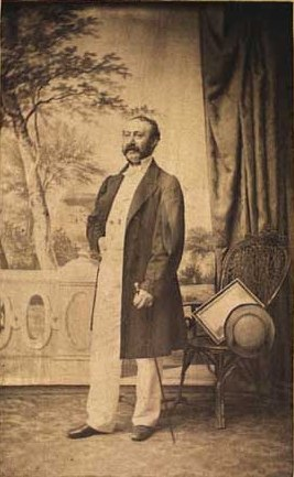 Danish stockbroker, businessman, and politician Isaac Wulff Heyman (1818-1884)